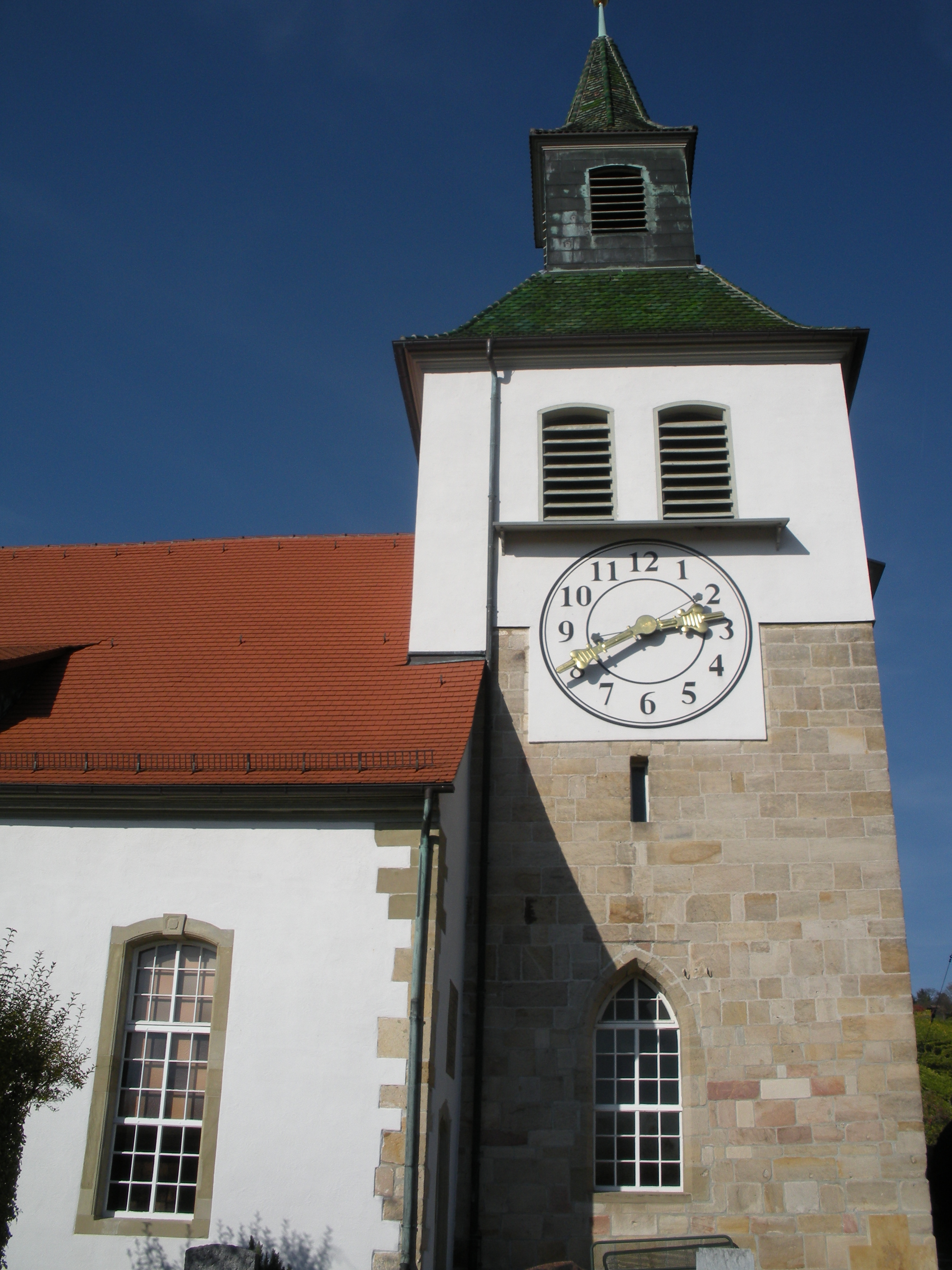 Protestant Church of Peter in Stuttgart-Obertürkheim